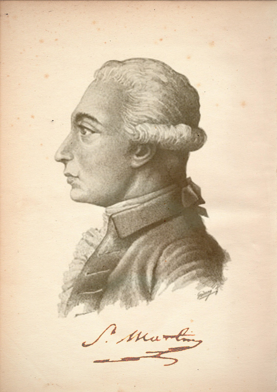 Louis-Claude de Saint-Martin